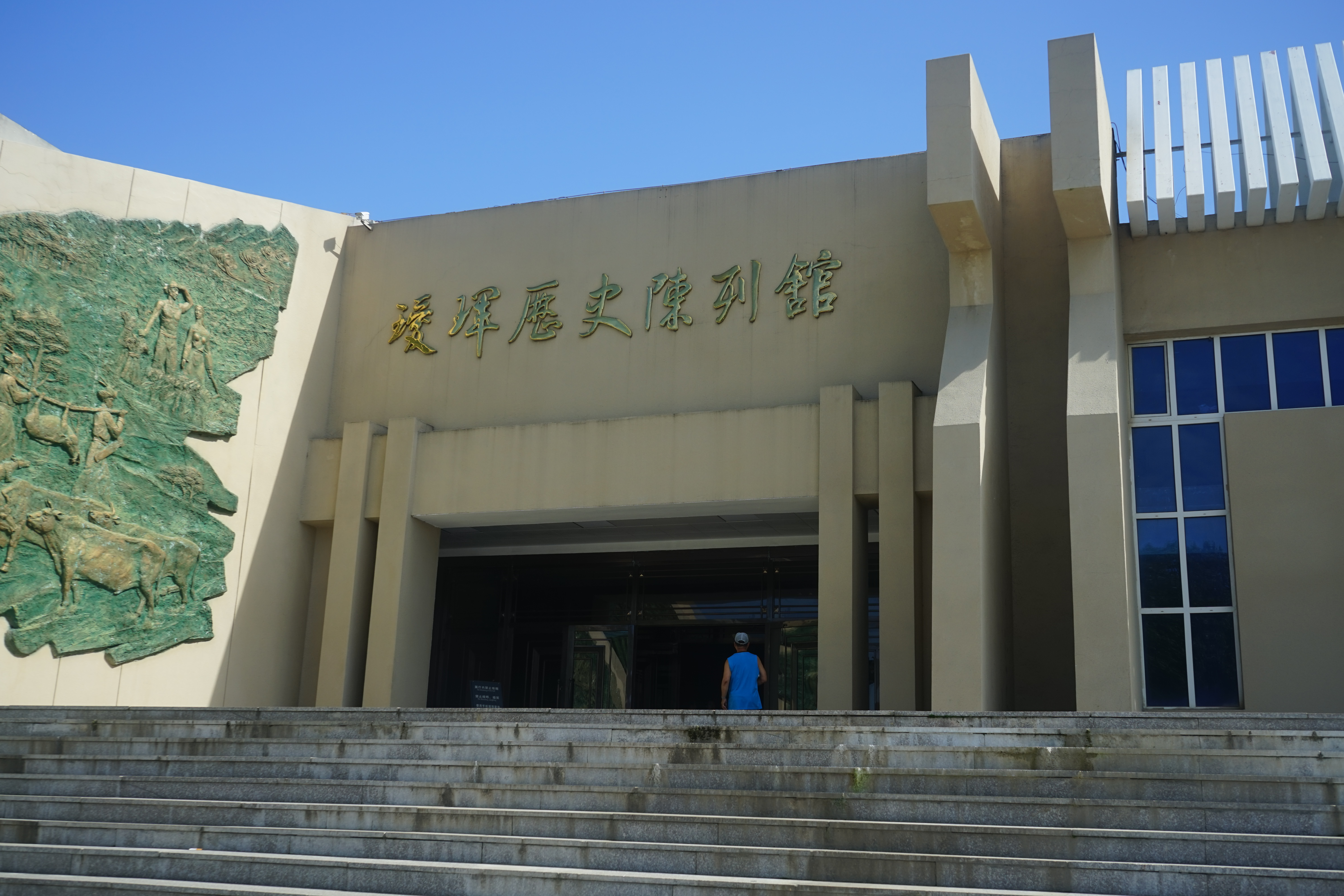 entrance of the Main Exhibition Hall, Aihui History Museum